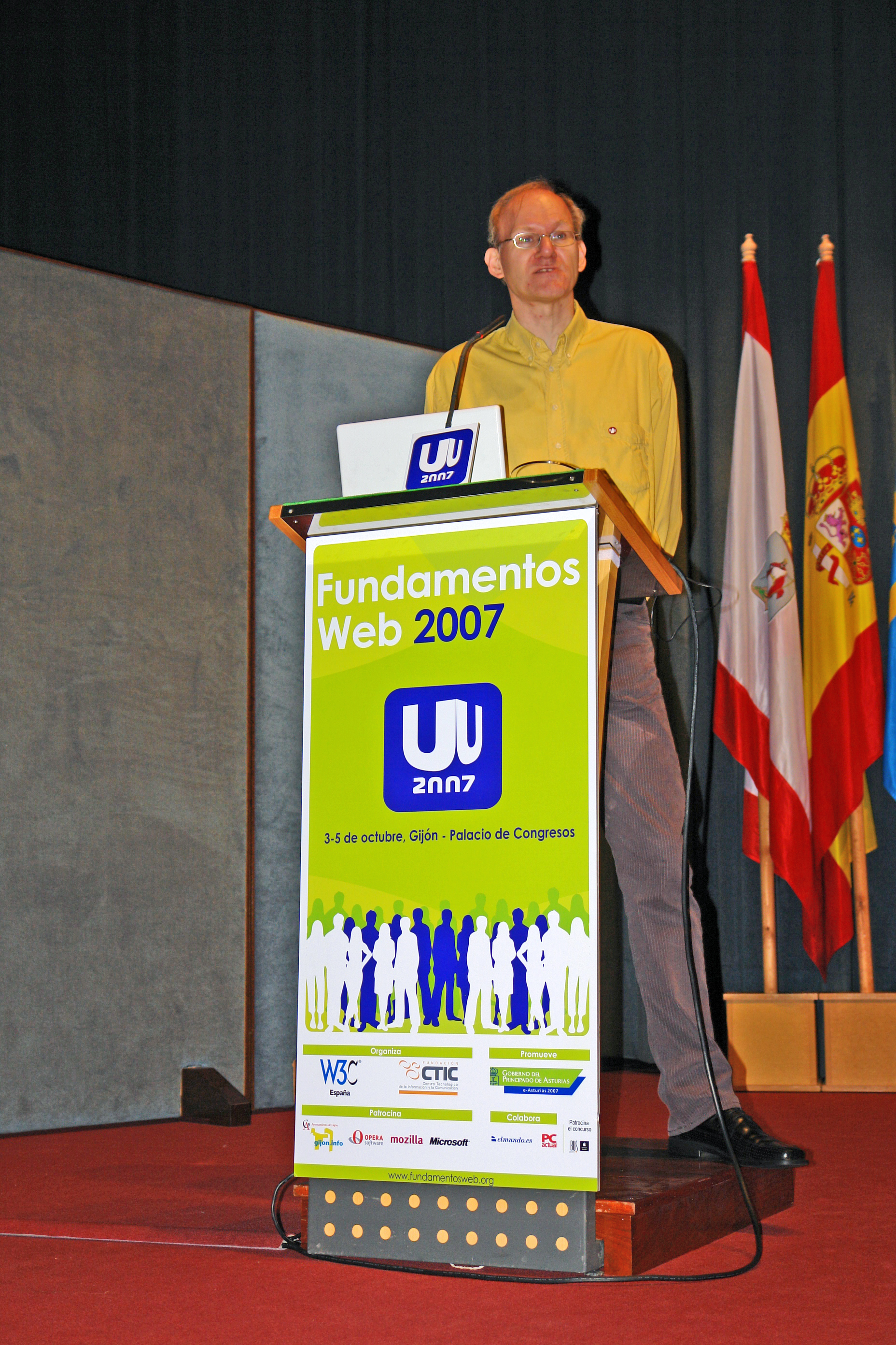 Bert Bos during his talk 'CSS: 10 years and counting', in the first day at the Fundamentos Web 2007 (3rd Oct 2007)